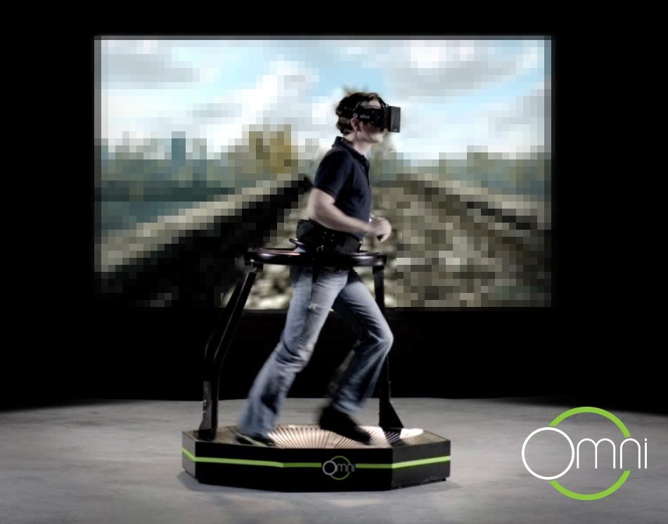 View of Virtuix Omni, supplied by Virtuix CEO Jan Goetgeluk. Originally titled: "Skyrim with Logo"